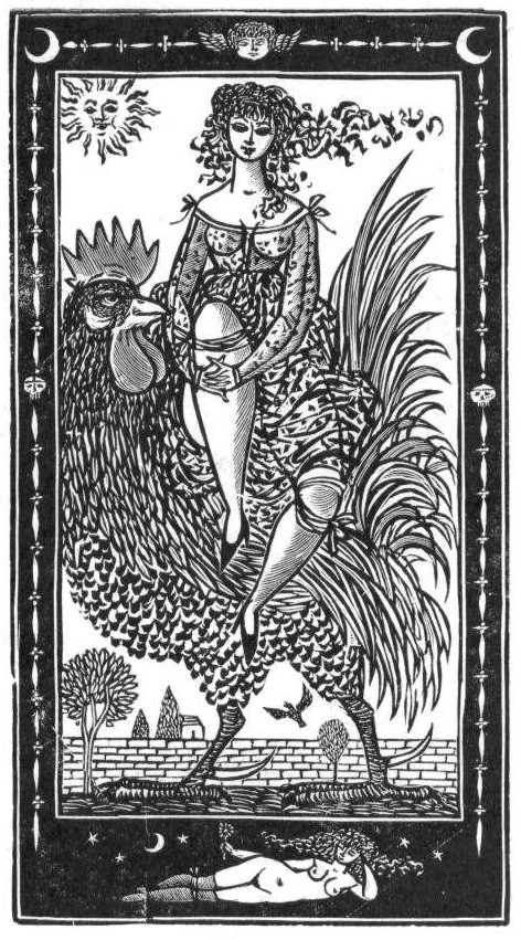 Illustration from "Das Dekameron" by Giovanni Boccaccio. Wood-engraving by Werner Klemke.